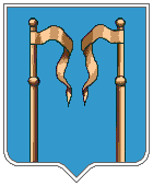 Coat of Arms of Babinavichy.gif